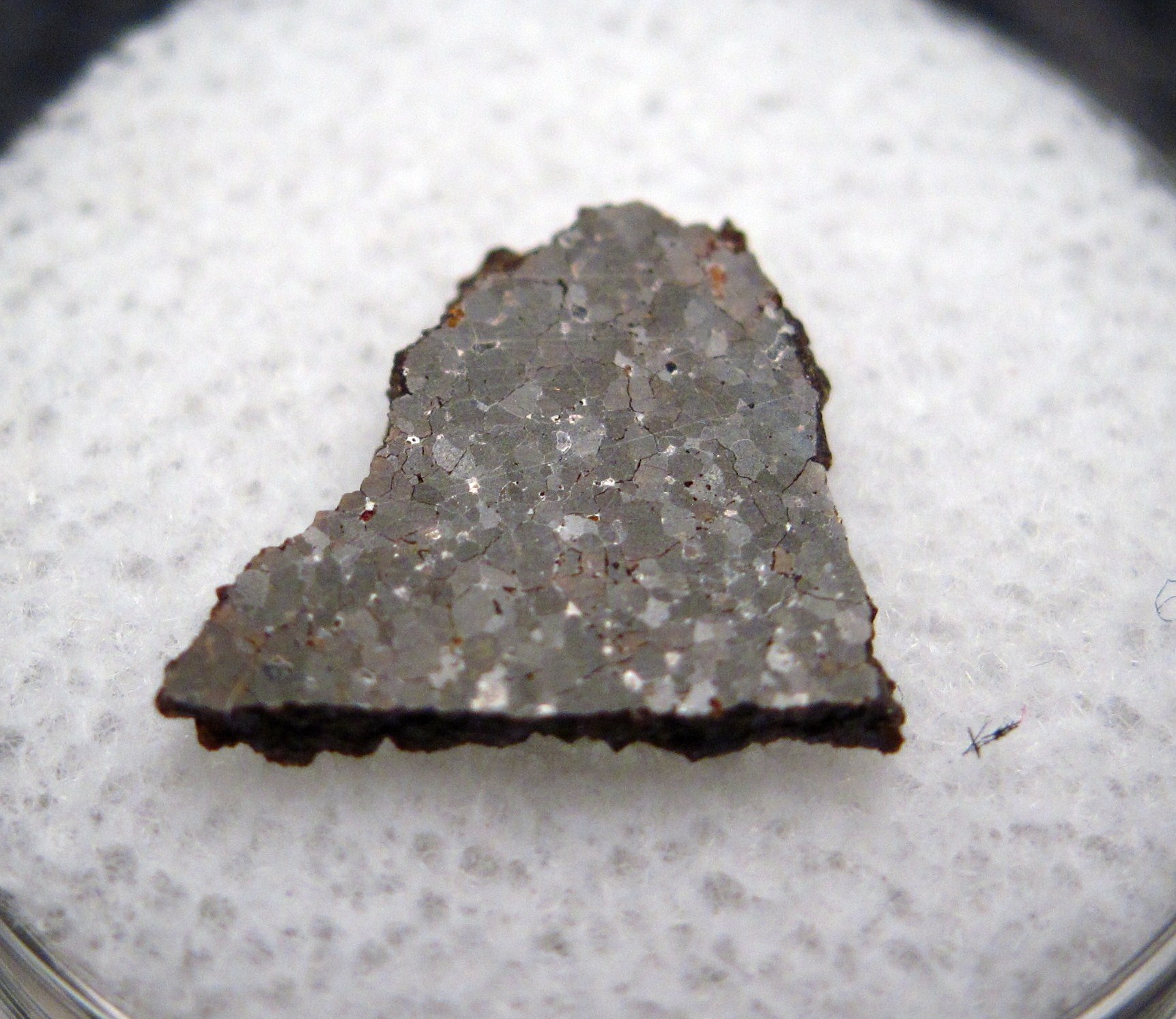 This specimen belongs to a very rare class of achondrites called brachinites, named for the type specimen Brachina which was found in South Australia. Brachinites are primarily made up of granular olivine and are similar in composition to chassignites. This partial slice weighs 0.410 g.